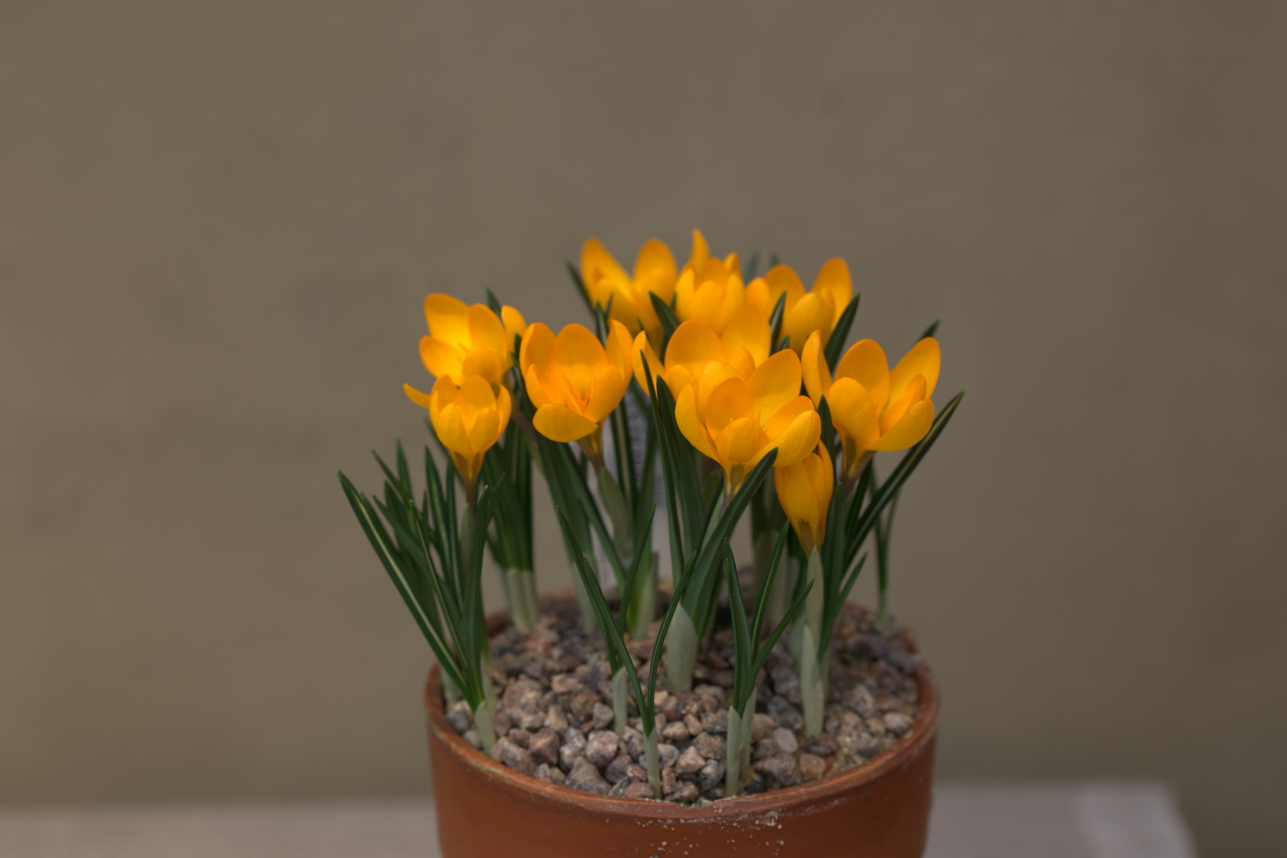 Crocus olivieri at a Crocus exhibition in the greenhouses at Gothenburg Botanical Garden the spring 2016.